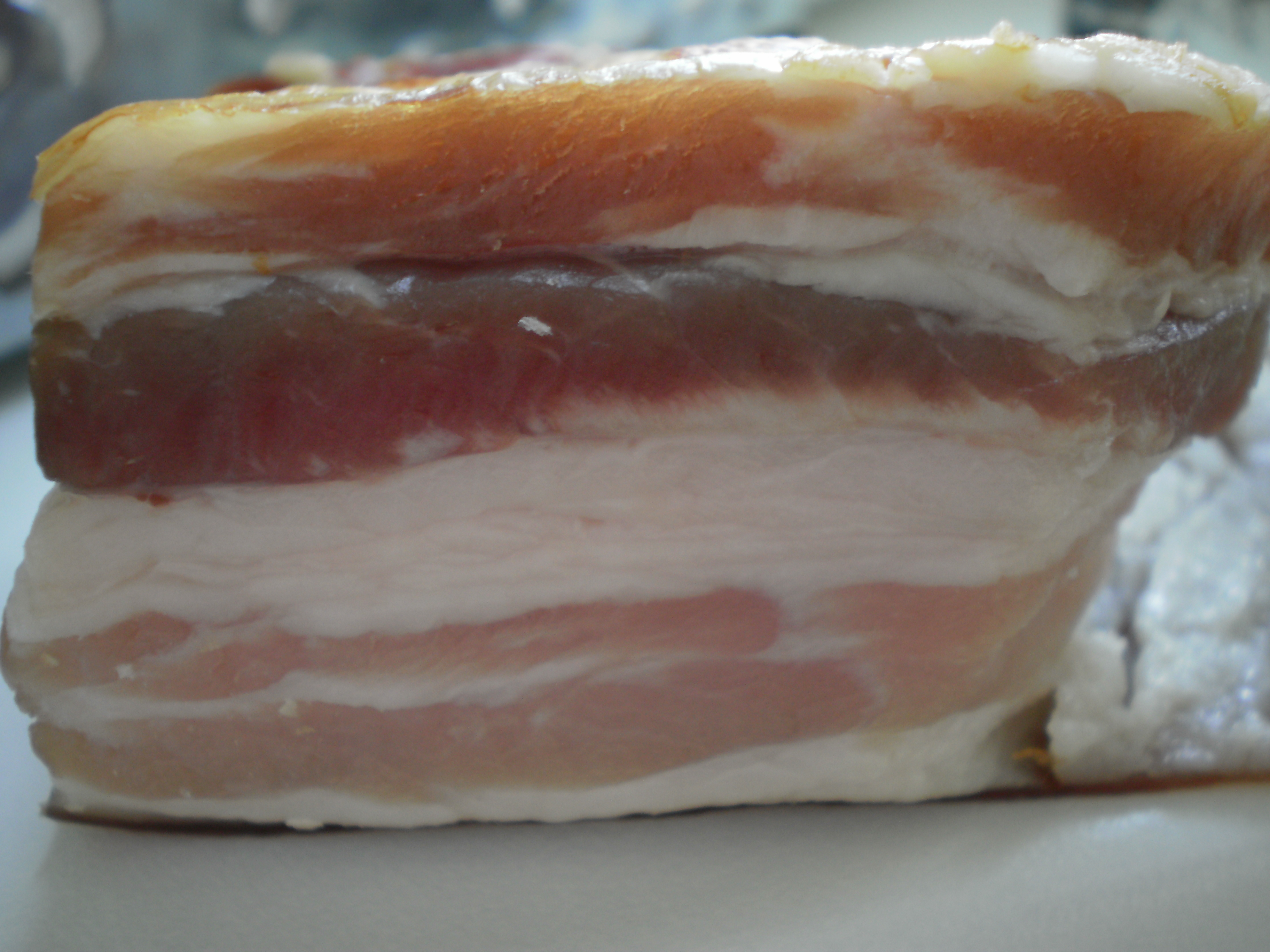 Bacon